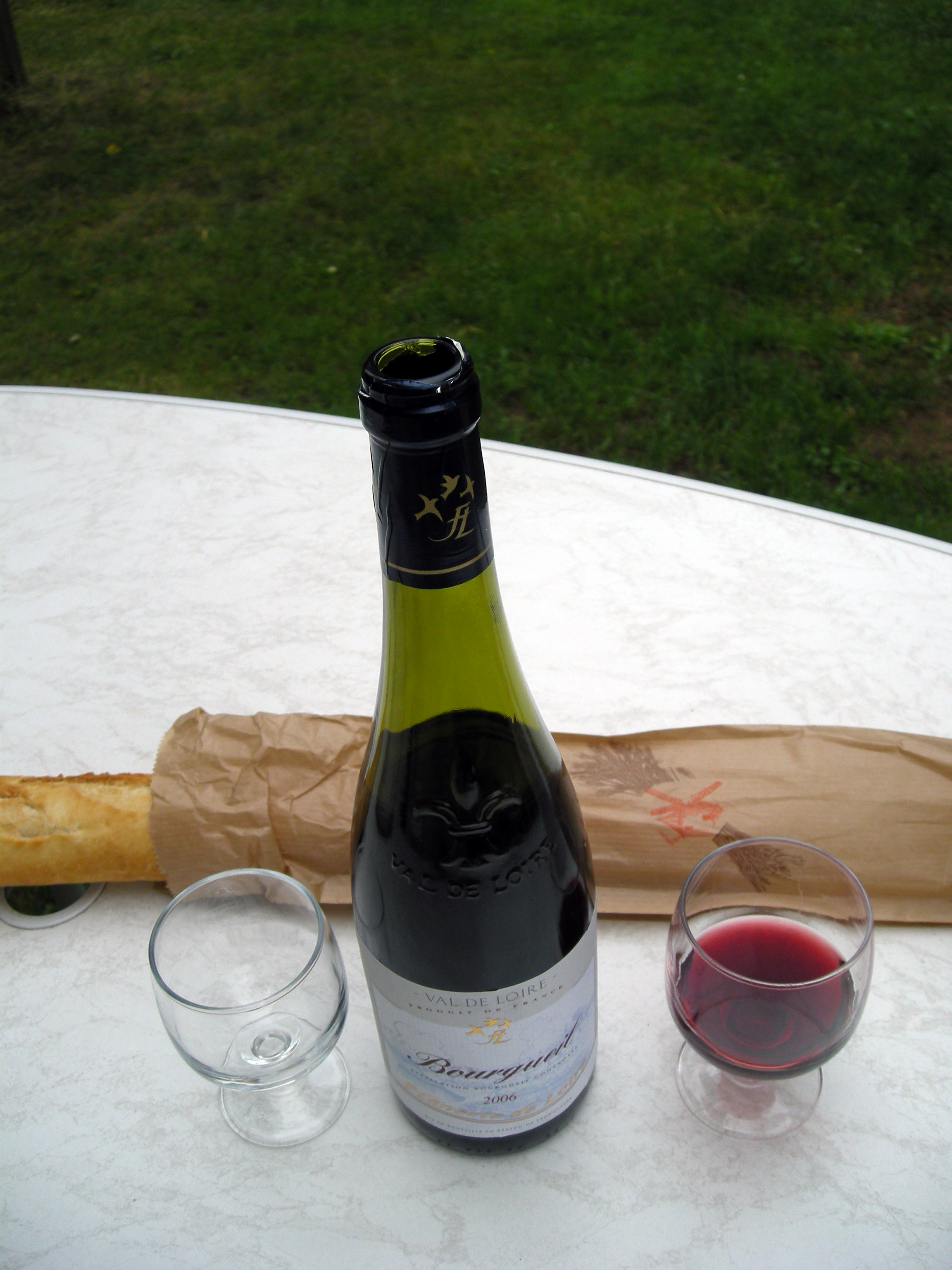 A glass of the French wine Bourgueil made from Cabernet Franc in the Loire Valley.